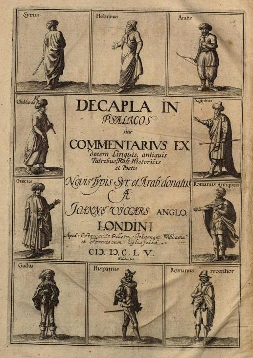 Title page of Decapla in Psalmos by John Viccars, second edition (1655).